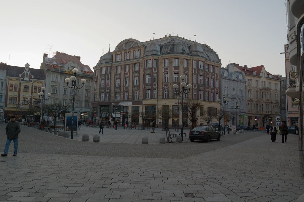 Jirásek square in Ostrava, Czech republic.